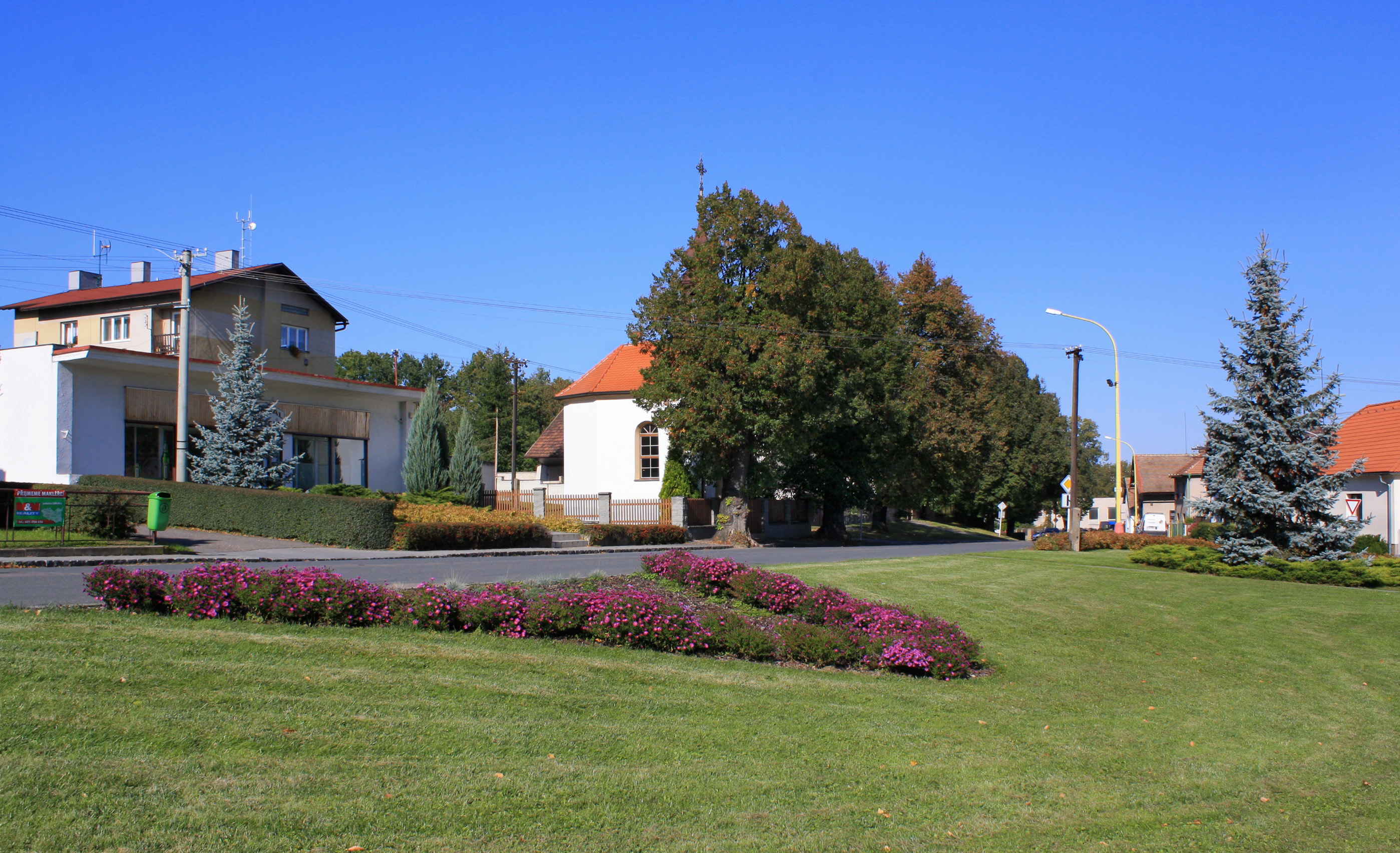 Common in Úhřetice, Czech Republic